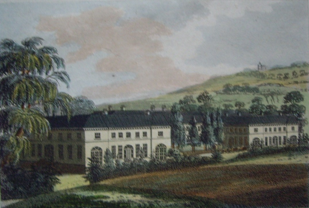 Engraving of the Royal Artillery Hospital, Woolwich, England. The plate was inscribed to John Rollo, who took charge of the construction.